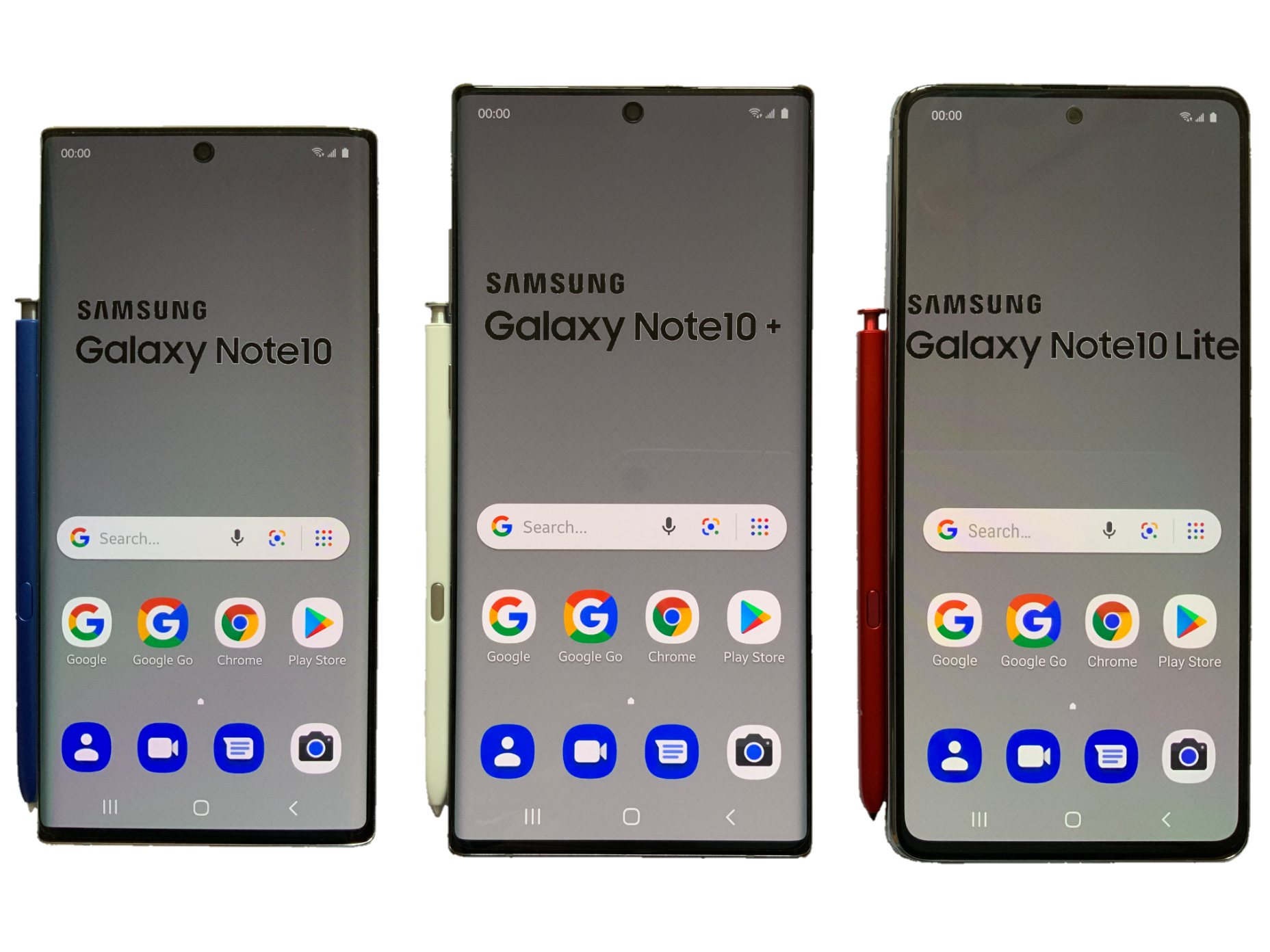 SAMSUNG Galaxy Note10 SAMSUNG Galaxy Note10+ SAMSUNG Galaxy Note10 Lite